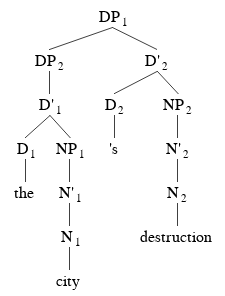 The city's destruction